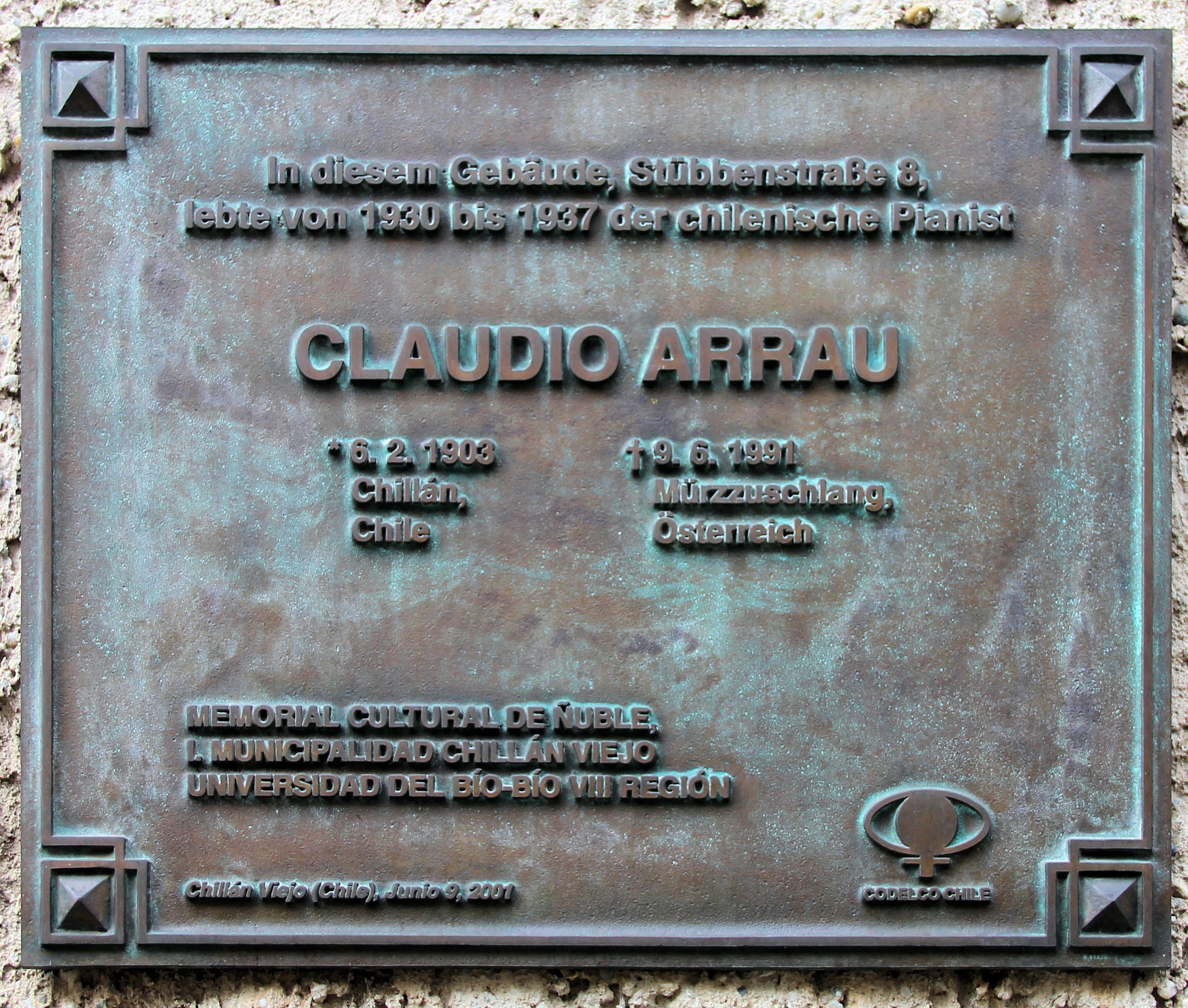 Memorial plaque, Claudio Arrau, Stübbenstraße 8, Berlin-Schöneberg, Germany Koordinate:52°29′23″N 13°20′14″E / 52.48972°N 13.33722°E